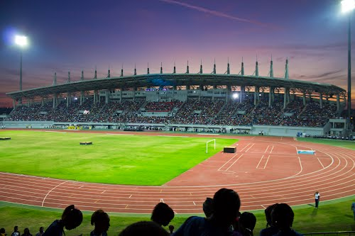 The Thomas Robinson National Stadium at evening during a cermony — in the Bahamas.